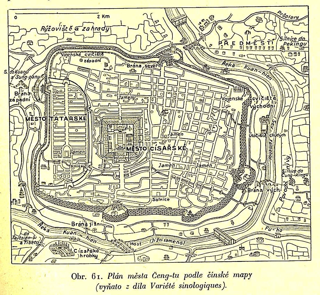 Map of Chengdu based on a Chinese map. The descriptions are in Czech.